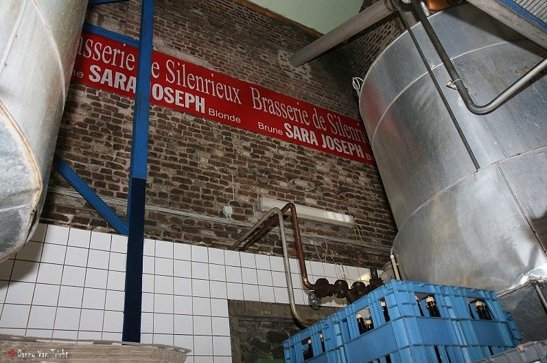 sil06 - Inside de Brewery